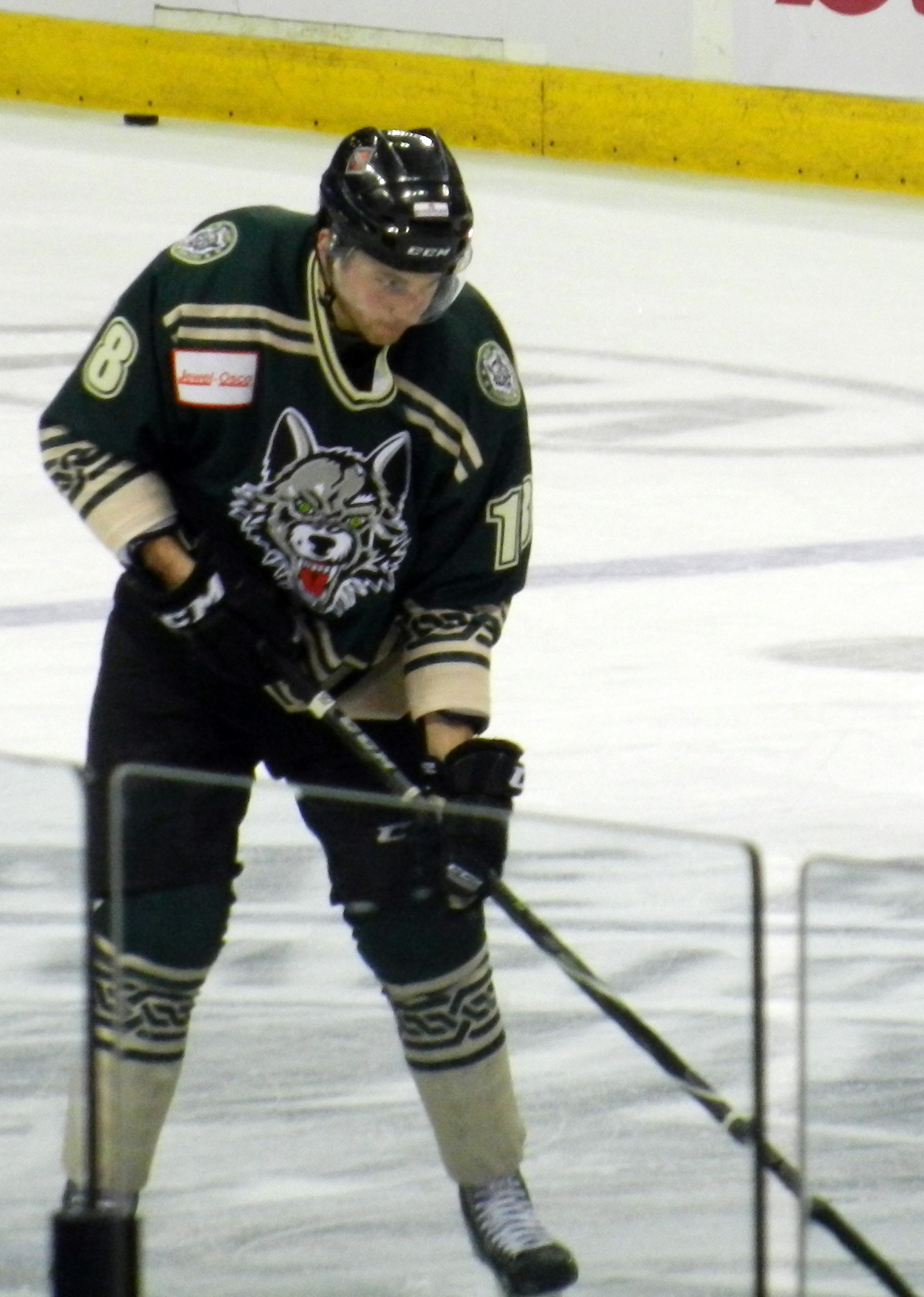 Yannick Veilleux with the American Hockey League's Chicago Wolves during Warm-ups. The Wolves were wearing a special St. Patrick's Day Jersey